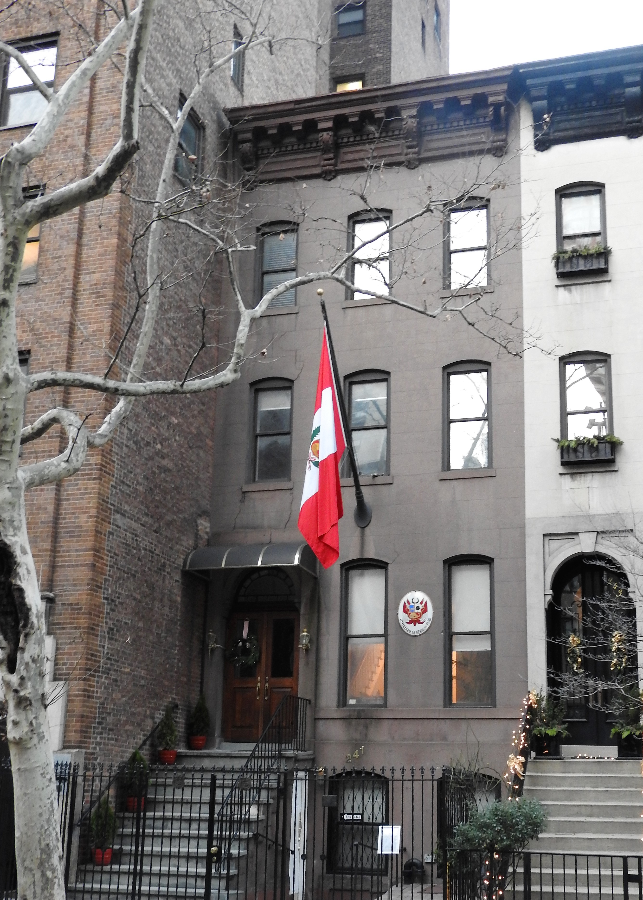 Looking north across 49th Street on a cloudy day.